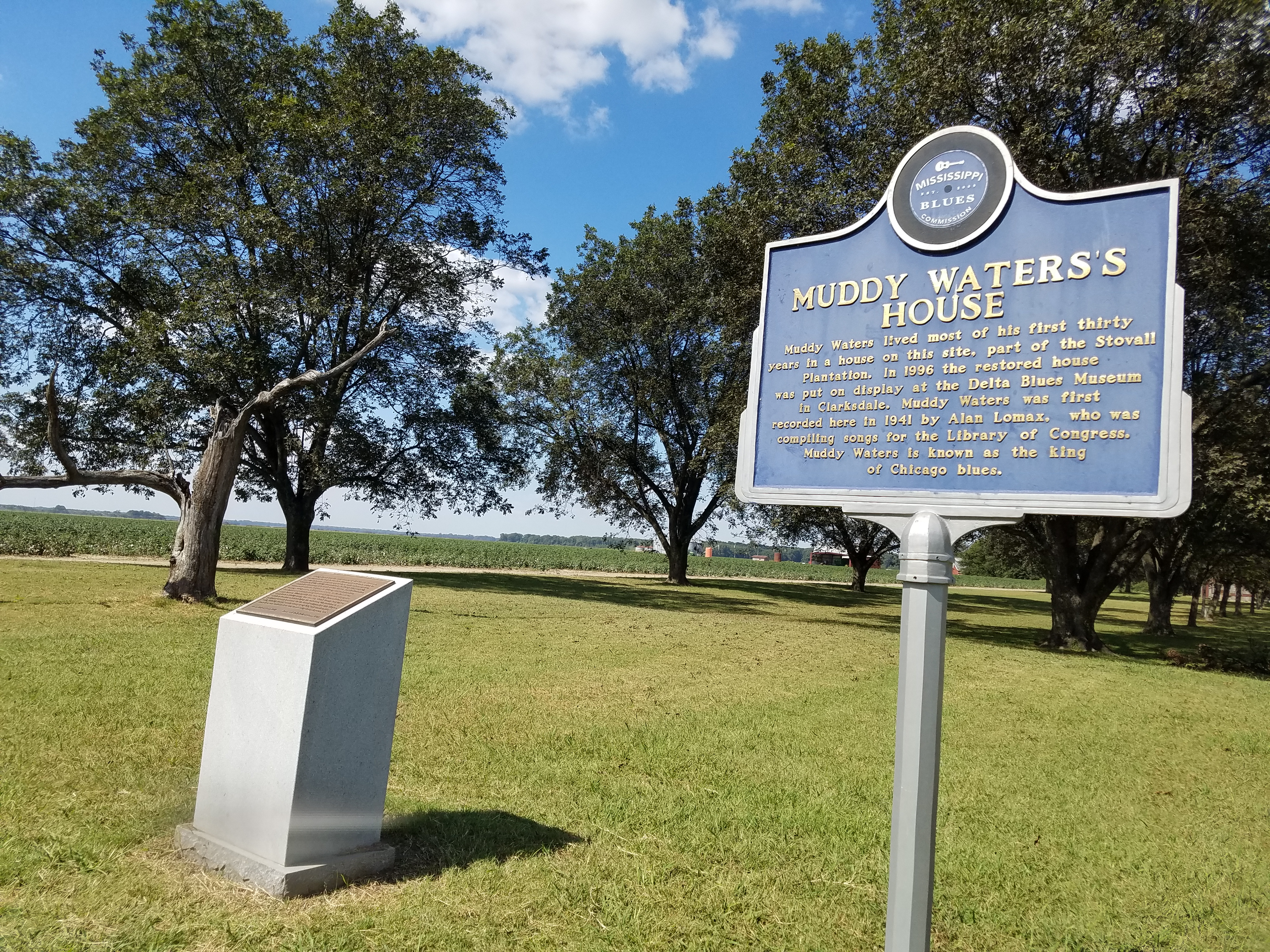 Original location of Muddy Waters cabin, Stovall Plantation outside Clarksdale, MS.